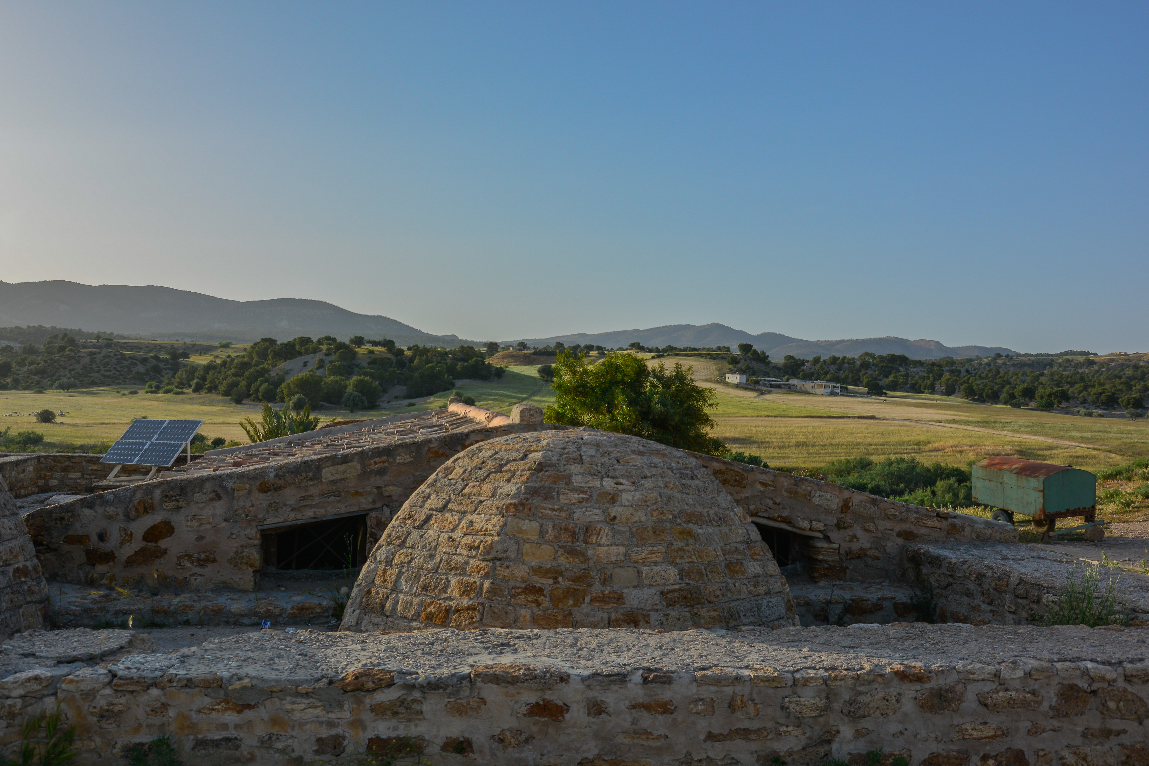 Hammem Malleg Kef